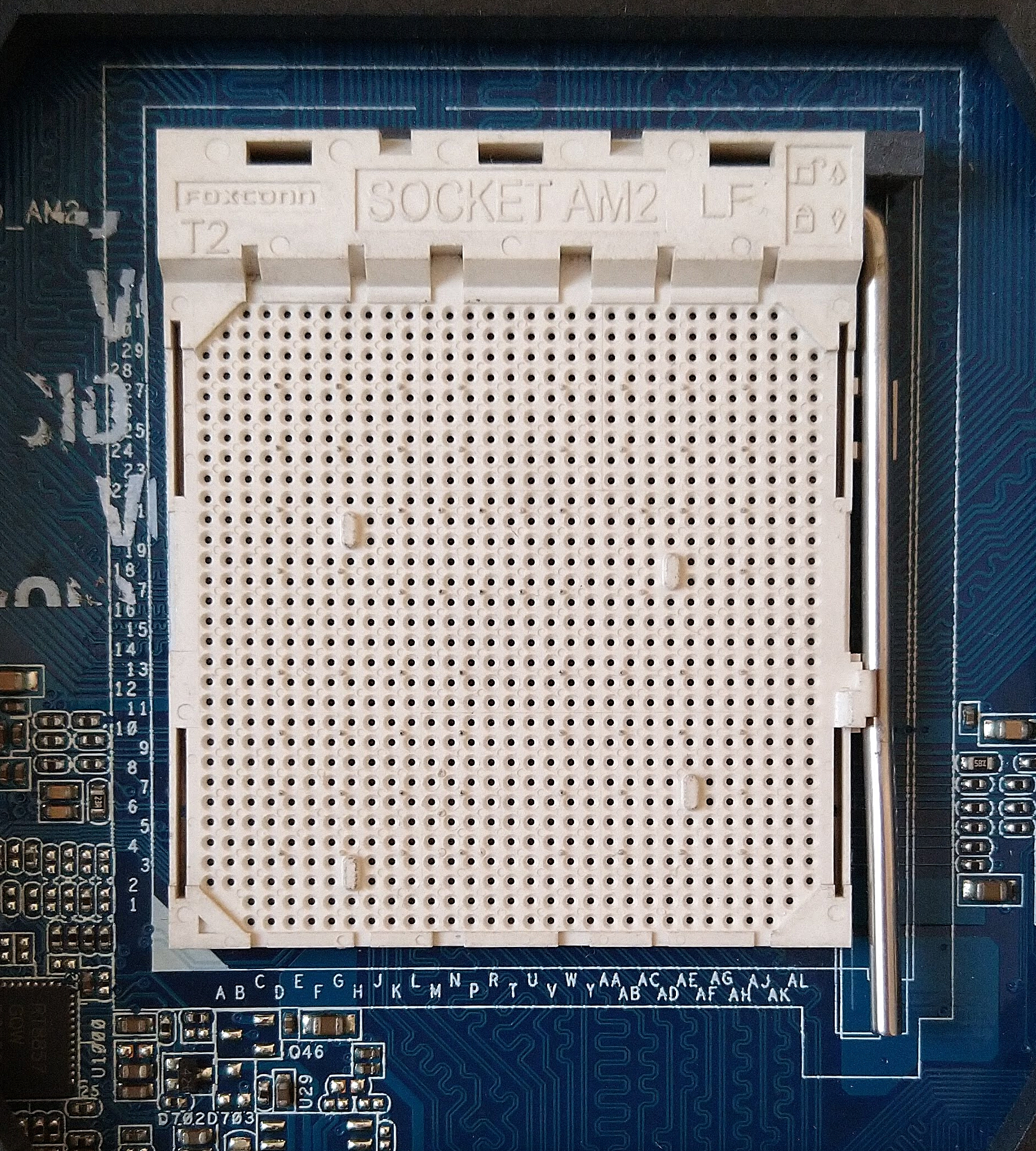 Socket AM2, AM2+ on a ASRock N68-S motherboard